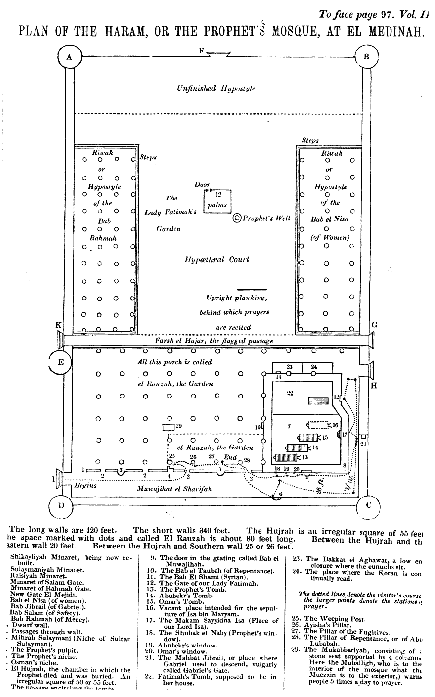 Floor plan of the Mosque of the Prophet (Al-Masjid al-Nabawi) in Madinah/Medina. Captions: A. Shikayliyah Minaret, being now rebuilt. B. Sulaymaniyah Minaret. C. Raisiyah Minaret. D. Minaret of Salam Gate. E. Minaret of Rahmah Gate. F. New Gate of El Mejidi. G. Bab el Nisa (of women). H. Bab Jibrail (of Gabriel). I. Bab Salam (of Safety). K. Bab Rahmah (of Mercy). Dwarf wall. Passages through wall. Mihrab Sulaymani (Niche of Sultan Sulayman). The Prophet's pulpit. The Prophet's niche. Osman's niche. El Hujrah, the chamber in which the Prophet died and was buried. An irregular square of 50 or 55 feet. The passage encircling the tombs. The door in the grating called Bab el Muwajihah. The Bab el Taubah (of Repentance). The Bab el Shami (Syrian) The Gate of our Lady Fatimah. The Prophet's Tomb. Abubekr's Tomb. Omar's Tomb. Vacant place intended for the sepulture of Isa bin Maryam. The Makam Sayyidina Isa (Place of our Lord Isa). The Shubak el Naby (Prophet's window). Abubekr's window. Omar's window. The Mahbat Jibrail, or place where Gabriel used to descent, vulgarly called Gabriel's Gate. Fatimah's Tomb, supposed to be in here house. The Dakkat el Aghawat, a low enclosure where the eunuchs sit. The place where the Koran is continuously read. The Weeping Post. Ayisha's Pillar. The Pillar of the Fugitives. The Pillar of Repentance, or of Abu Lubabah. The Mukabbariyah, consisting of a stone seat supported by 4 columns. Here the Muballigh, who is to the interior of the mosque what the Muezzin is to the exterior, warns people 5 times a day to prayer.